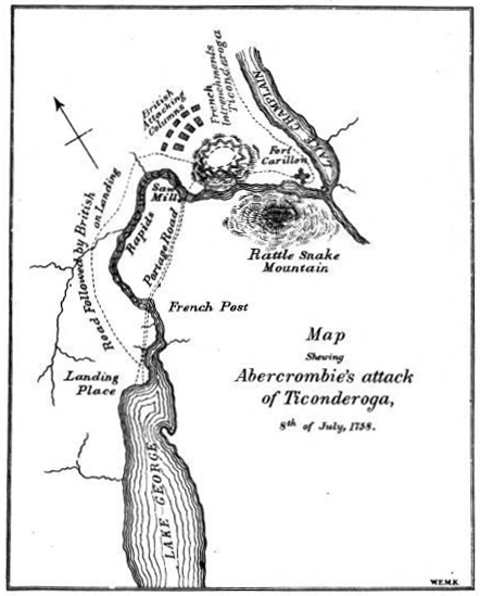 This map shows the movement of General James Abercrombie's army as it approached Fort Carillon in 1758.